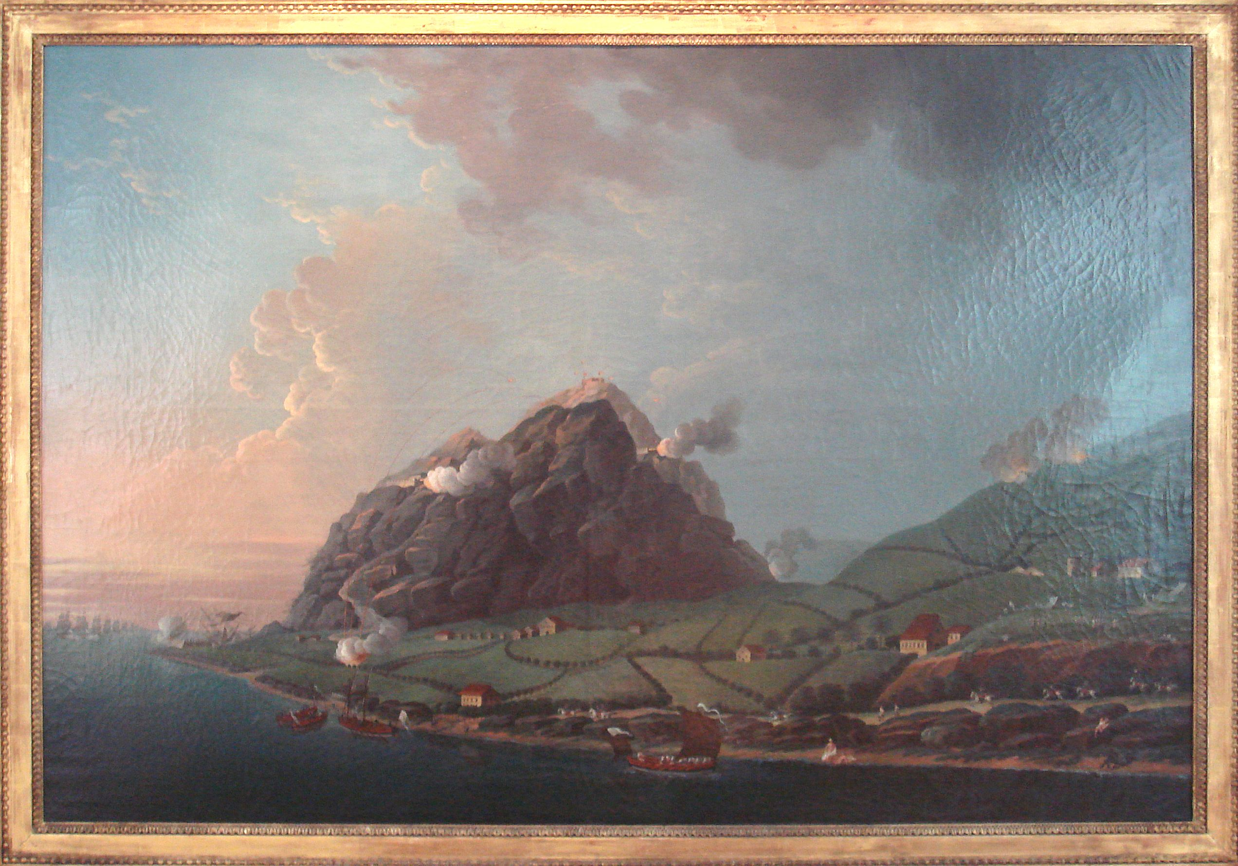 Taking Saint Kitts and Nevis Islands, February 13, 1782